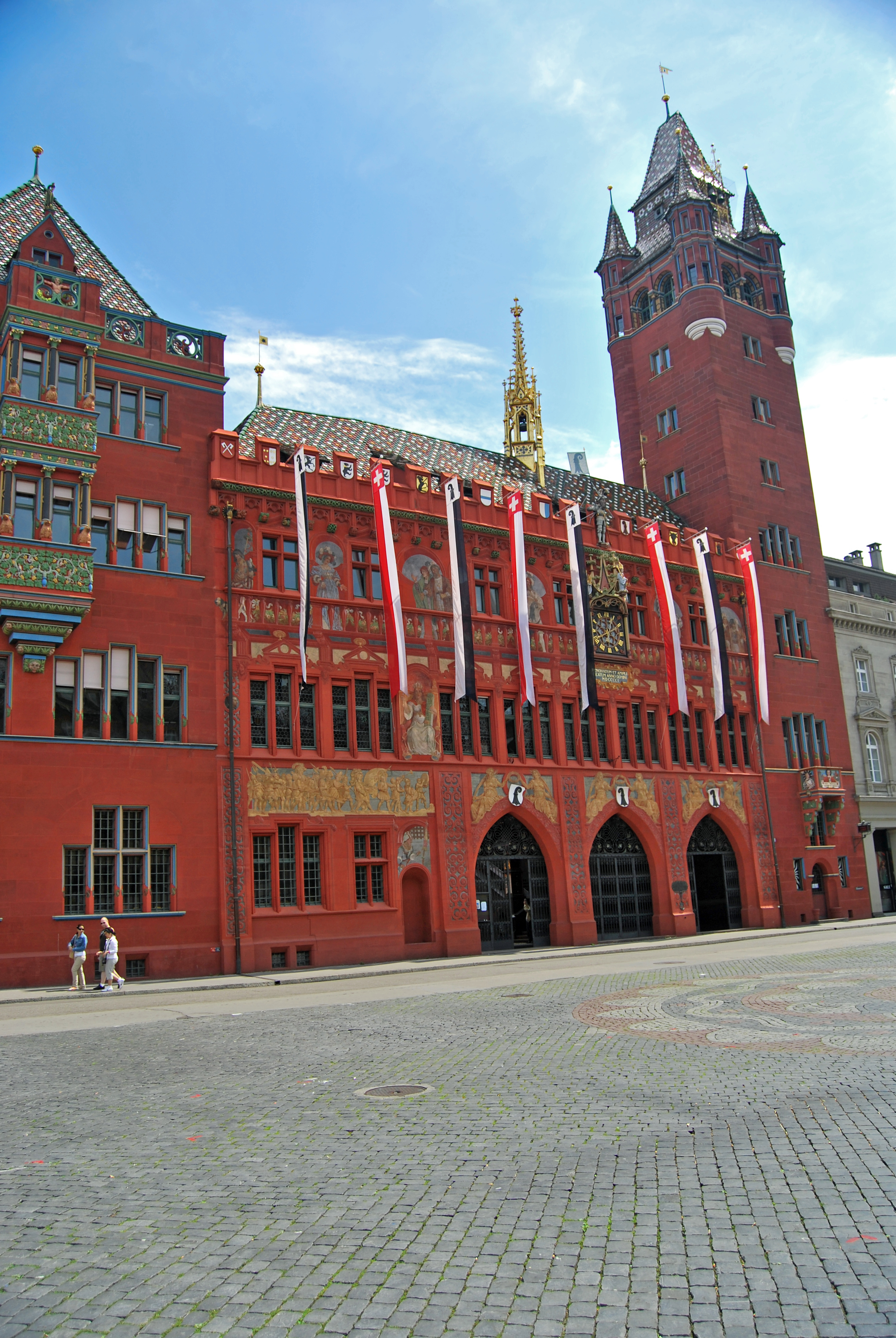 Basel City Hall